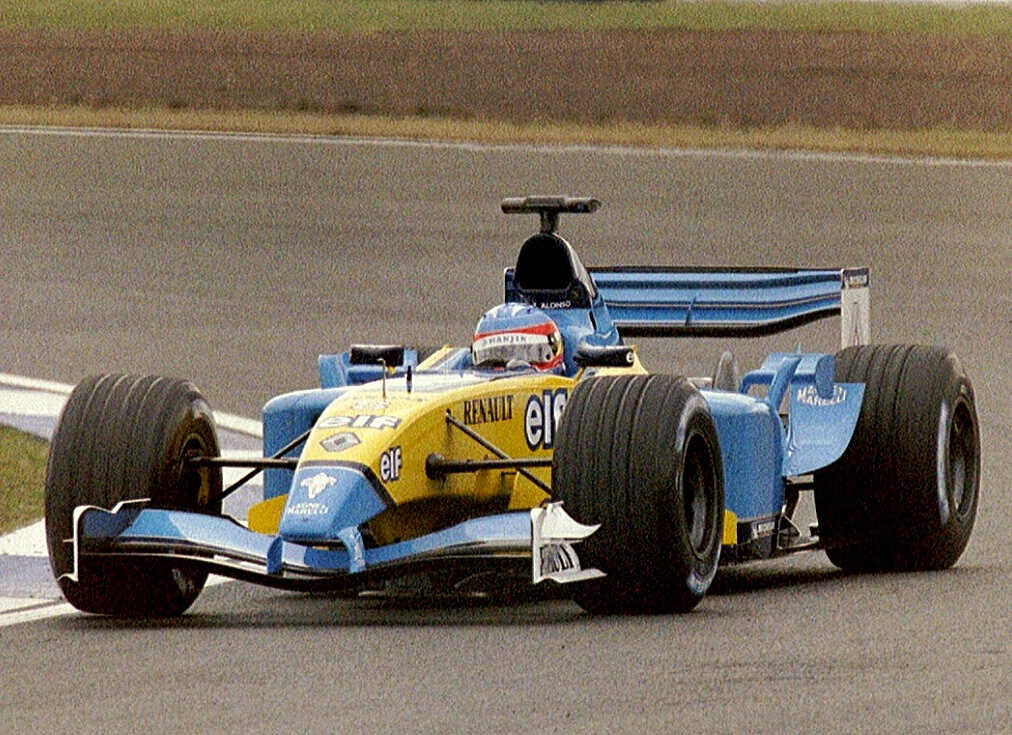 Fernando Alonso, driving his Mild Seven Renault at the 2003 British Grand Prix.